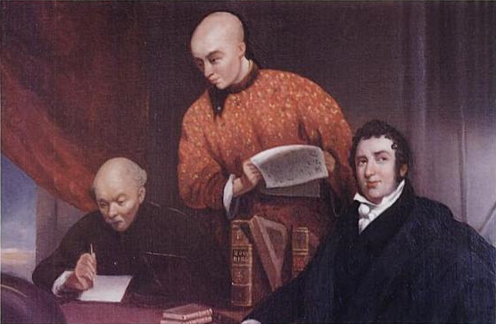 From left to right: Li Shigong, Chen Laoyi, and Robert Morrison. Engraved from a painting by George Chinnery done about 1828. The original painting was destroyed in a fire in 1874. Only printed copies and engravings survive.